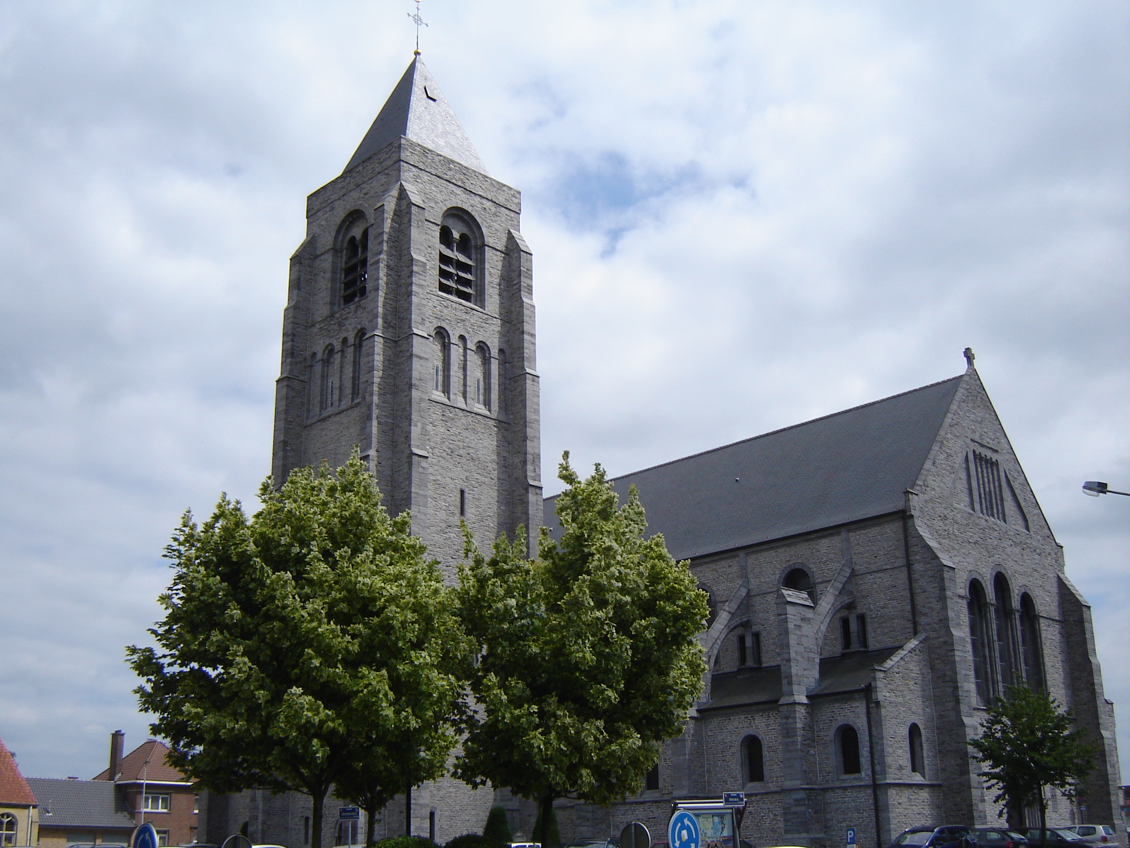 Church of the Holy Family in the Gaverke quarter in Waregem. Waregem, West Flanders, Belgium